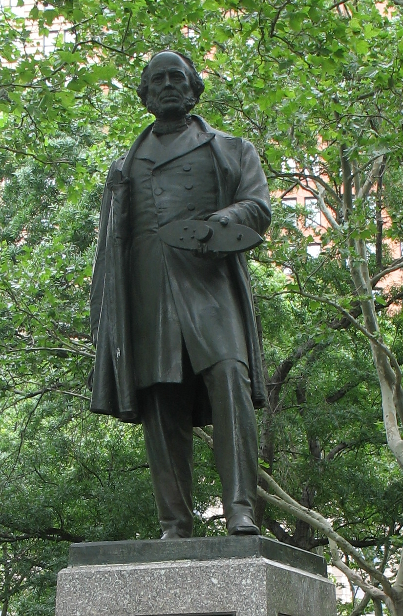 A statue of the Swedish-American inventor John Ericsson. Battery Park, New York. See [1] for more info about the statue